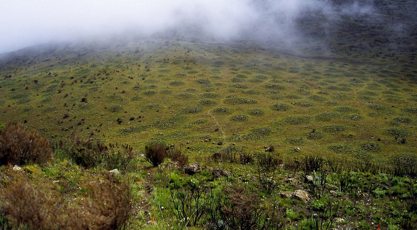 Patterned ground to the west of Mugi hill on Mount Kenya. They are caused by repeated freezing of the ground in a process known as frost heaving.